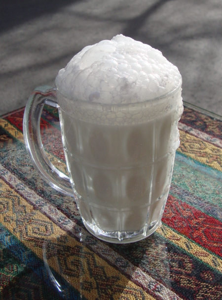 Glass mug of fresh ayran as found in Maltepe, Istanbul, Turkey.